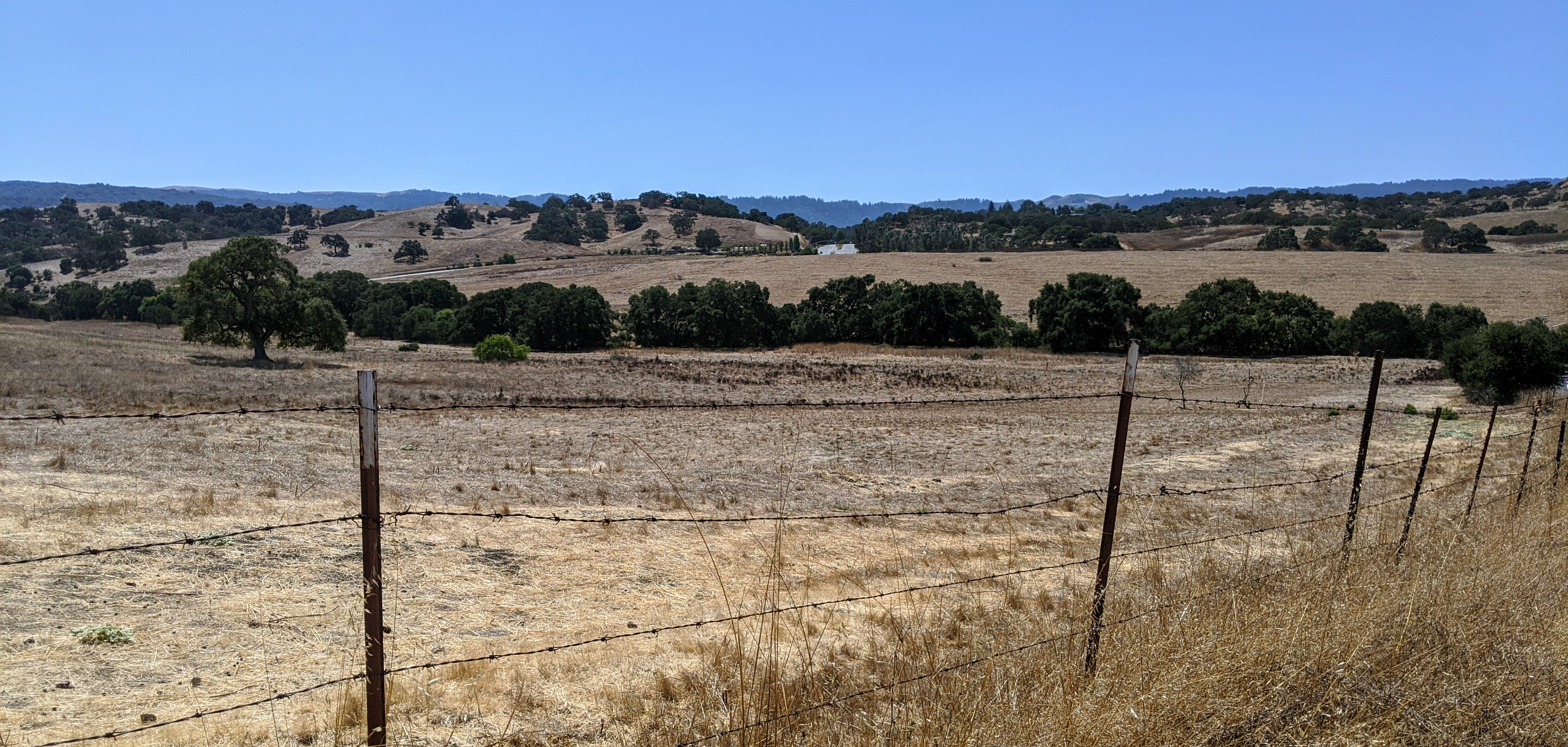 Deer Creek (Matadero Creek tributary) from Coyote Hill Road, Palo Alto, with Deer Creek Road and Page Mill Road in background